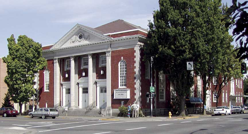 Picture of The John G. Shedd Institute for the Arts. Photographer: J. Ralph